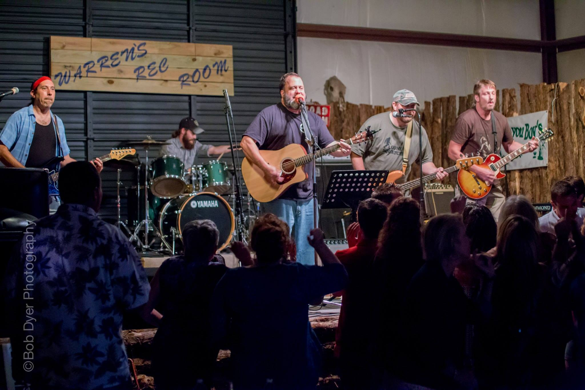 Willin-N-Able entertain the crowd with live performance at Warren's Rec Room outside of Fort Smith, Arkansas